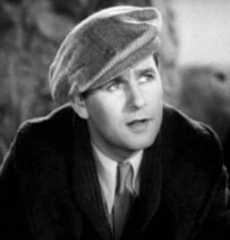 Cropped screenshot of Ben Lyon from the film I Cover the Waterfront (1933).